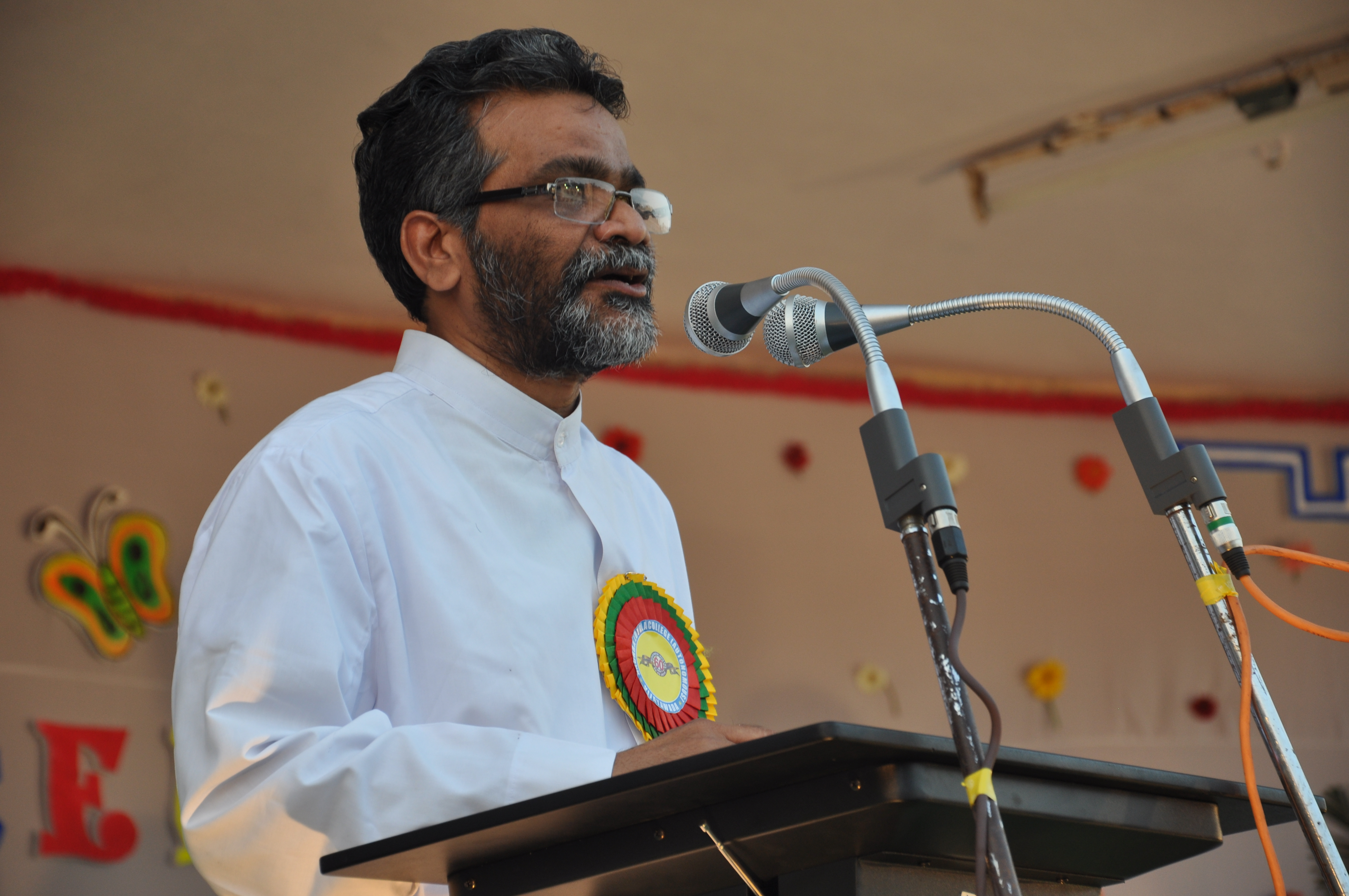 Fr. G.A.P. Kishore, SJ. Principal of Andhra Loyola College